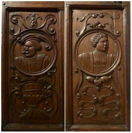 Carvings from the house of merchant and local landowner Alexander Acheson of Gosford and his wife Helen Reid in Blyth's Close, Edinburgh. They became occupants in 1557.